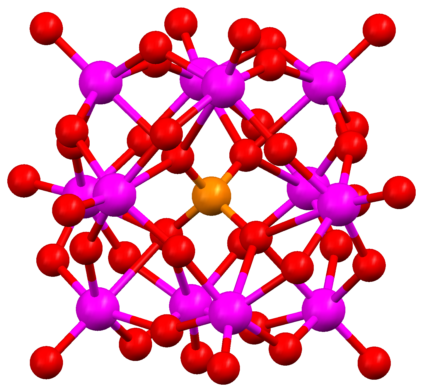 Keggin structure